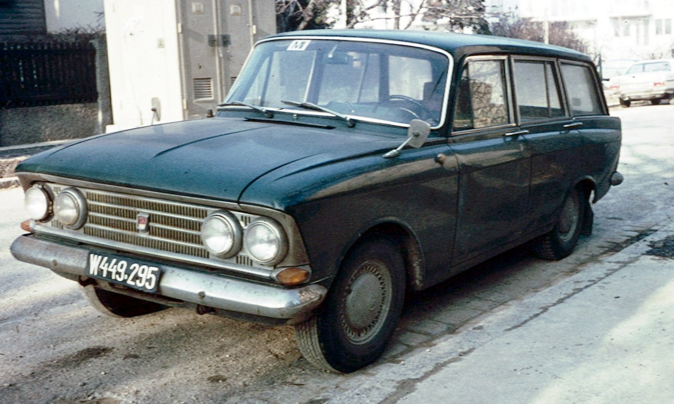 Moskwitch 426 in Vienna suburb